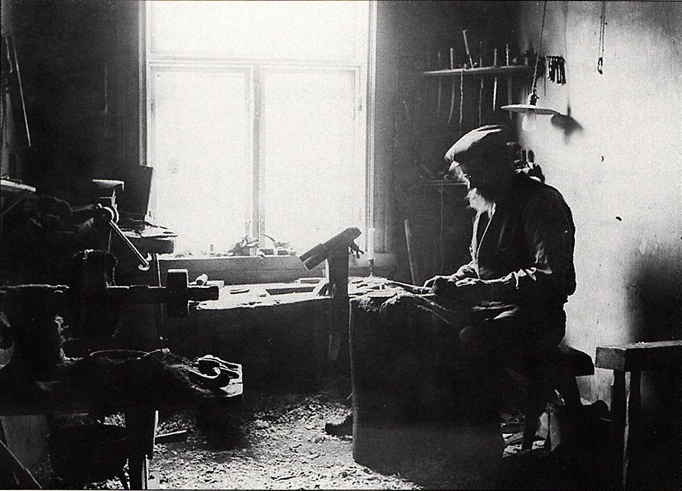 One of the last comb makers in Finland, E.G. Löfström, in his shop in Ekenäs in the early 20th century.